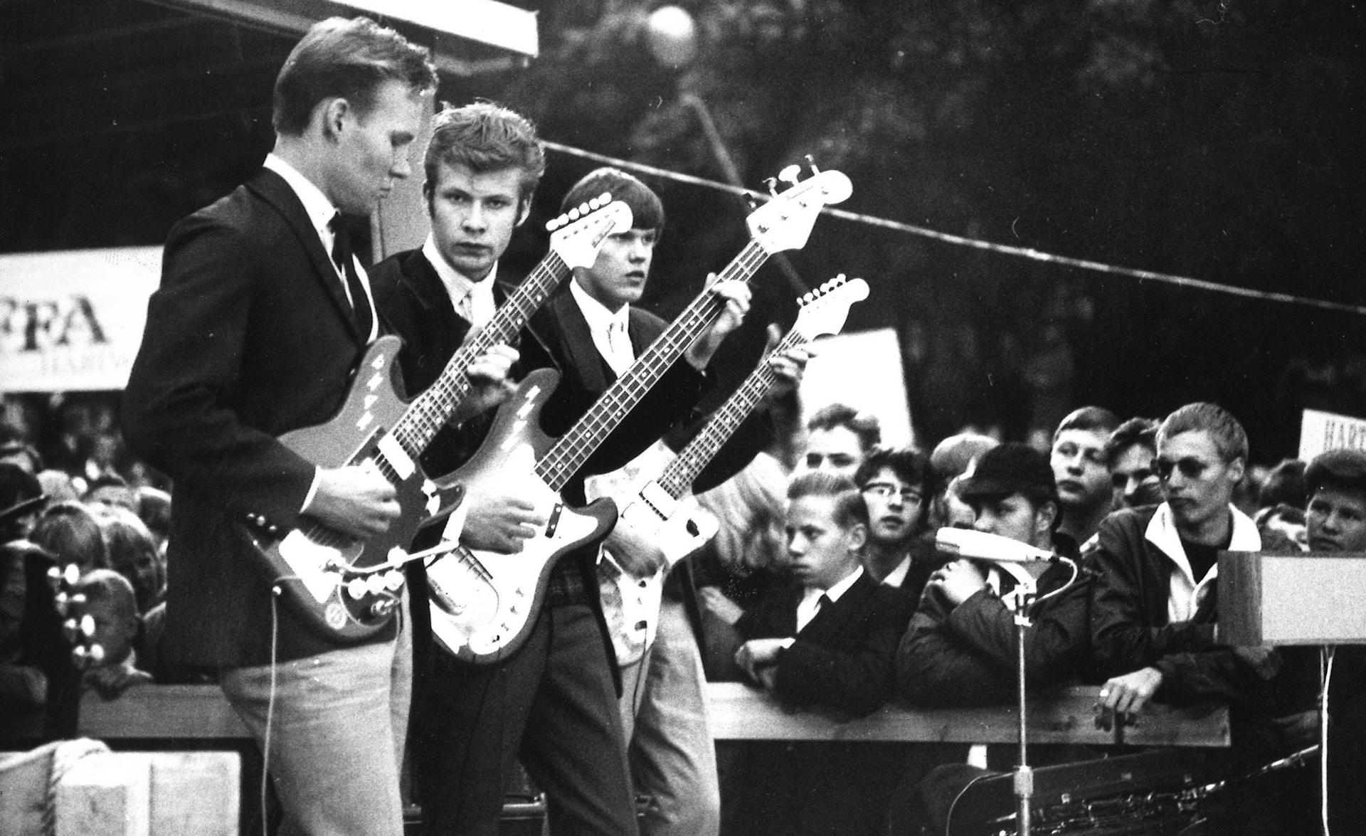 Photograph of the Finnish pop band The Careless in 1964. The members are Kari Rosti (bass), Vesa Sassi (drums), Kauko Vilen (guitar) and Martin Eklund (guitar, song) — Sassi is not in the picture.